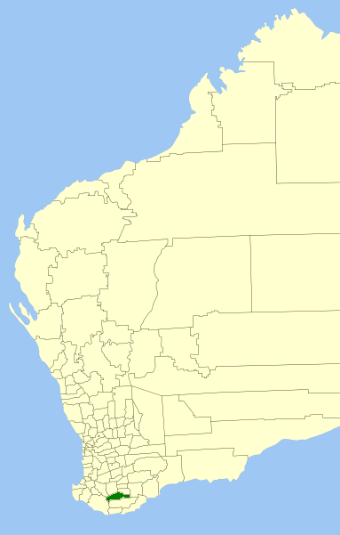 Description=Location of the Local Government Area in Western Australia